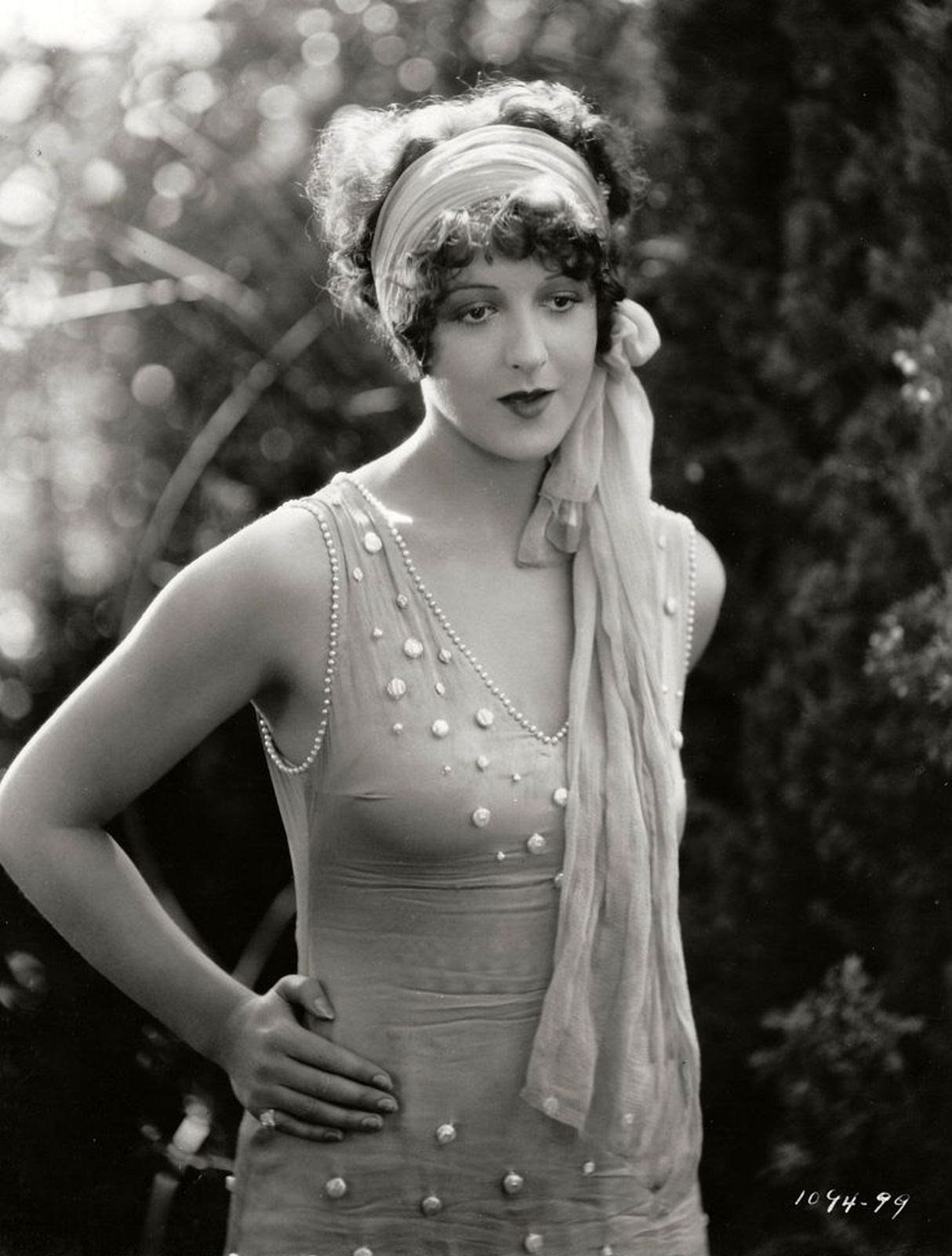 Natalie Kingston (May 19, 1905 – February 2, 1991) was an American actress.